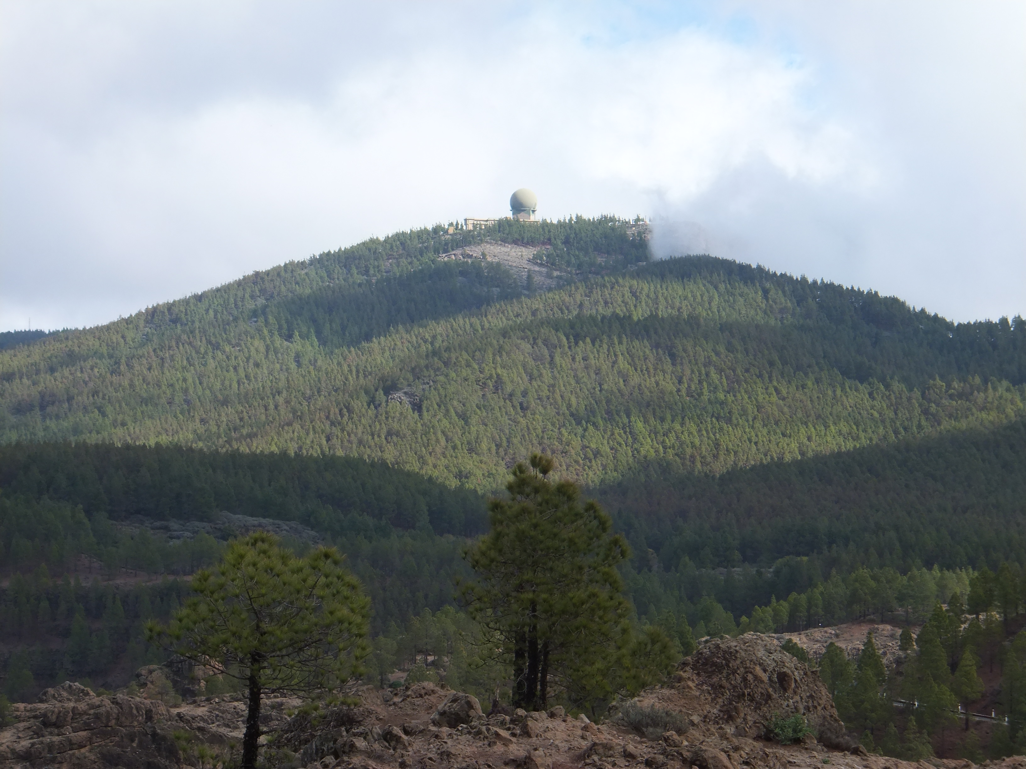 Pico de las Nieves